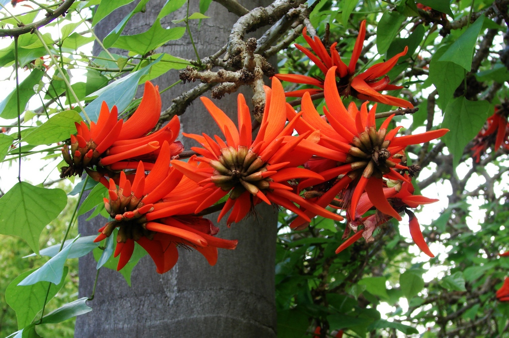 Erythrina lysistemon Coral tree Native to South Africa